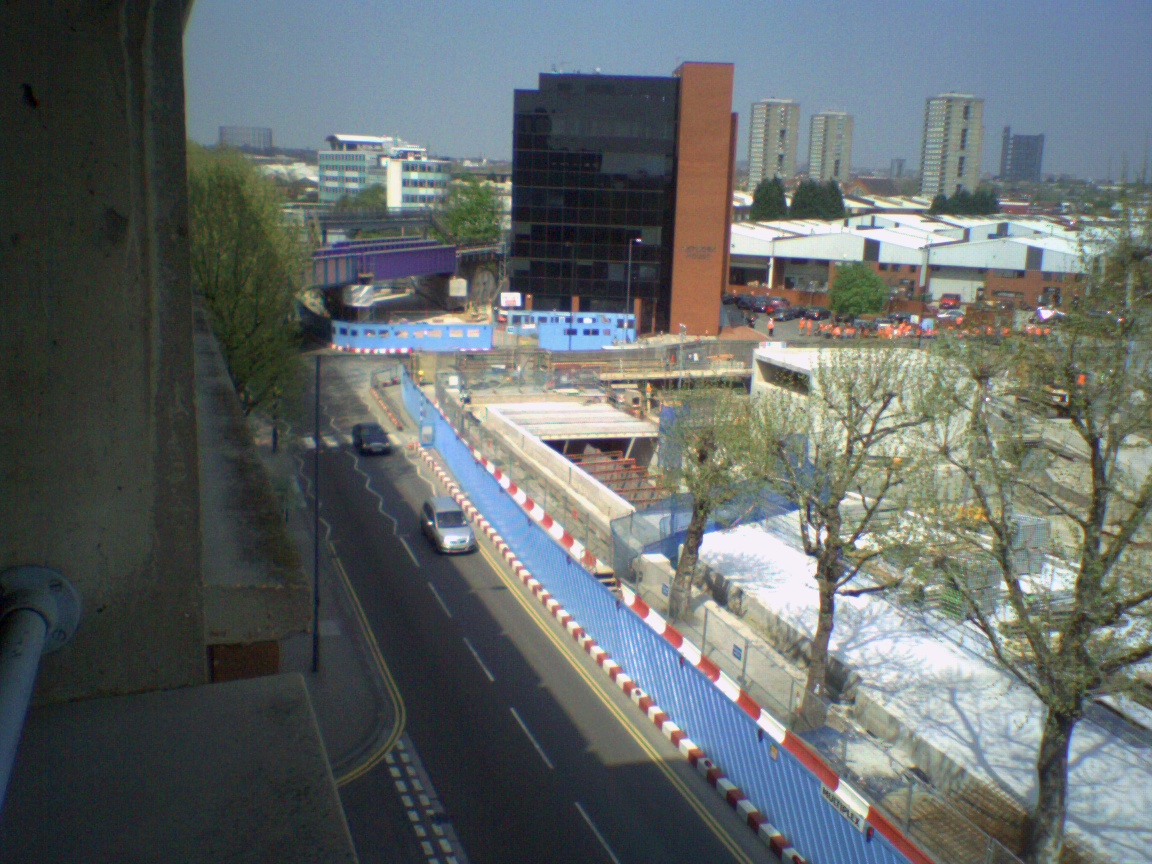 The Westfield White City shopping centre development, London, showing the site of the former Wood Lane London Underground station. The Central line tunnel roof is still open near the corner of Wood Lane and Ariel Way. The recently-added bridge over Wood Lane is on the Hammersmith & City line. Work has not yet started on the new White City station on this line.